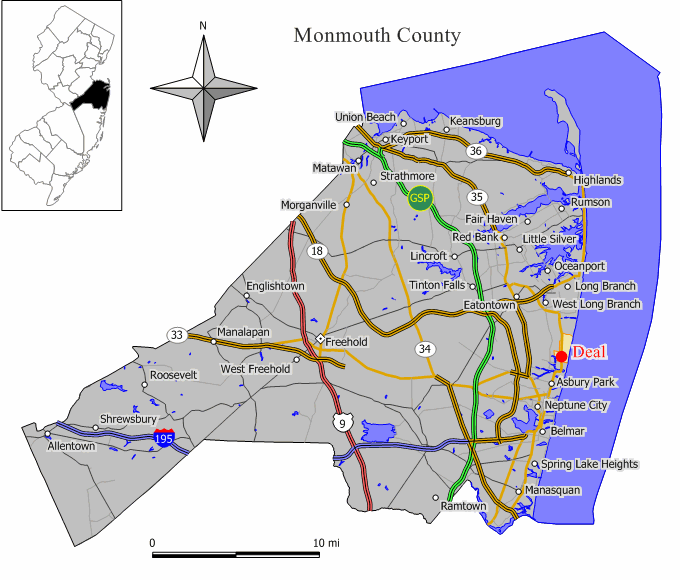 Source: Jim Irwin